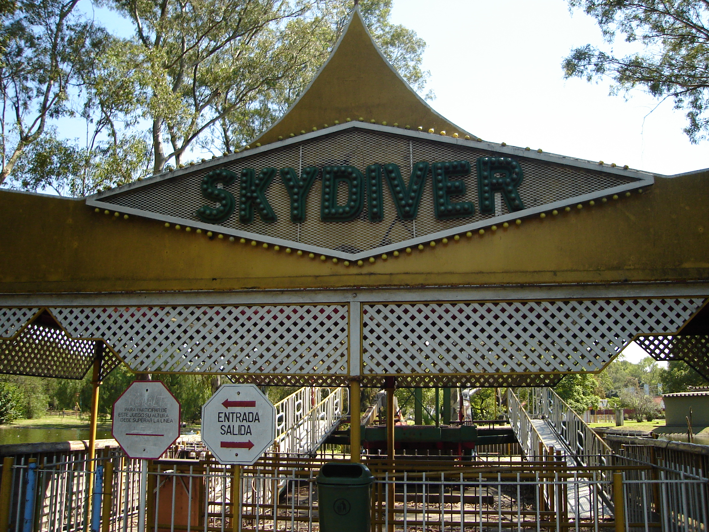 The former Skydiver ride at the defunct Parque de la Ciudad amusement park, which operated in Buenos Aires from 1982 until 2003.